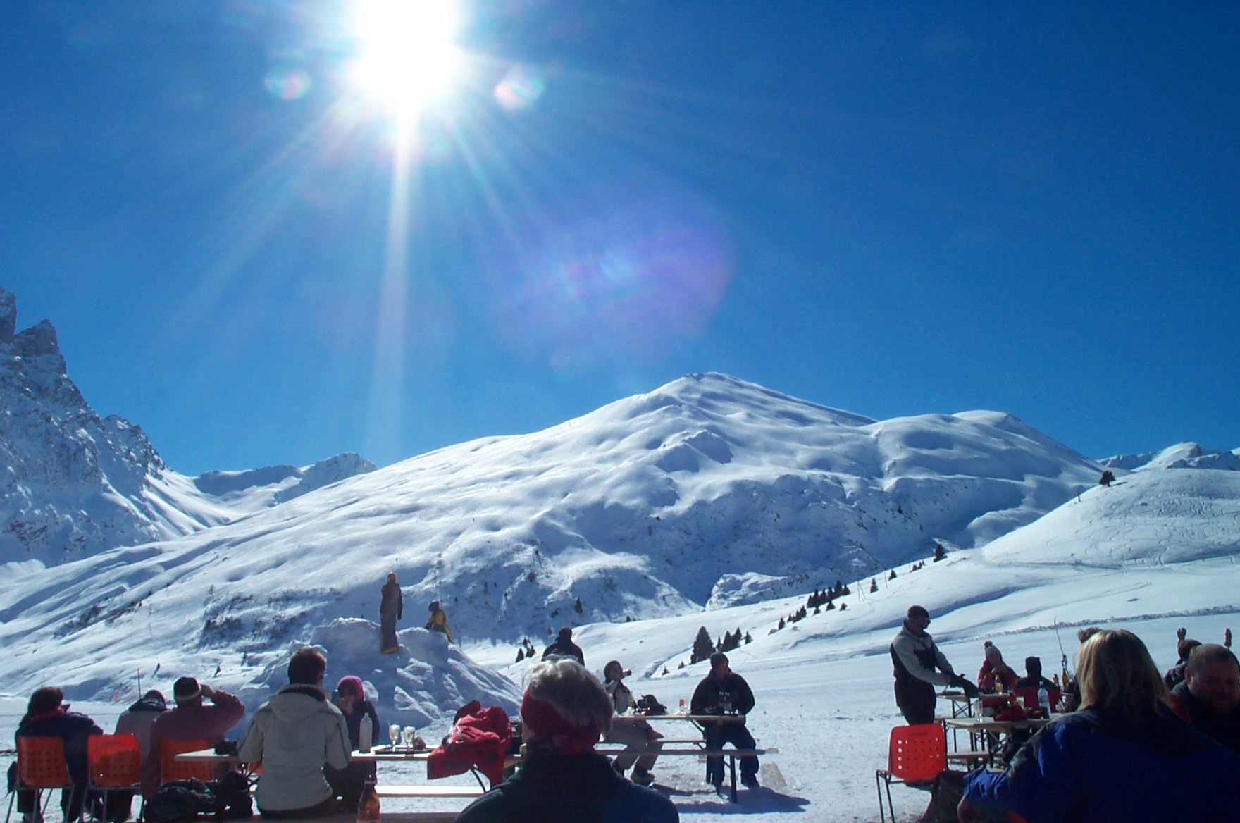 Piz Mez from Radons, Riom-Parsonz, Savognin, Grison, Switzerland